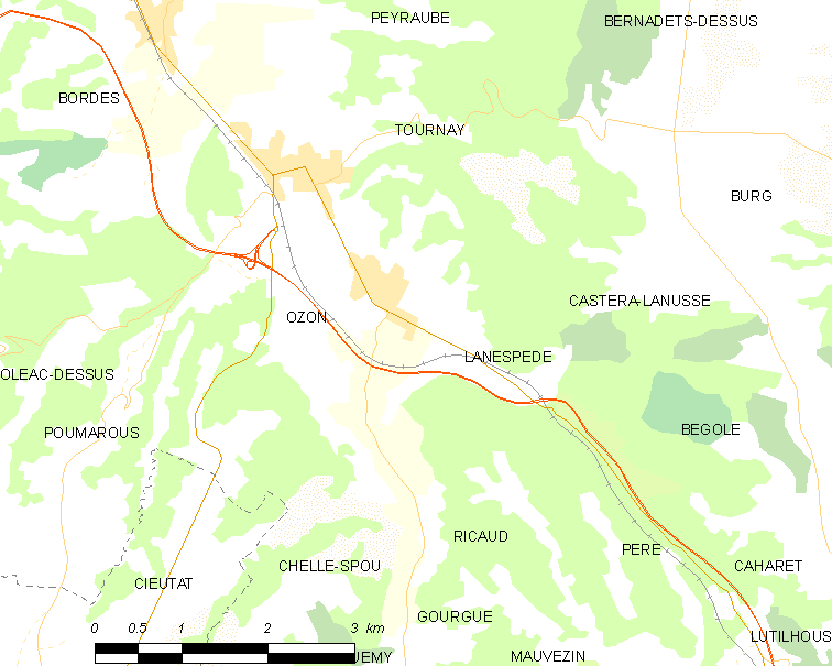 Map of French municipality